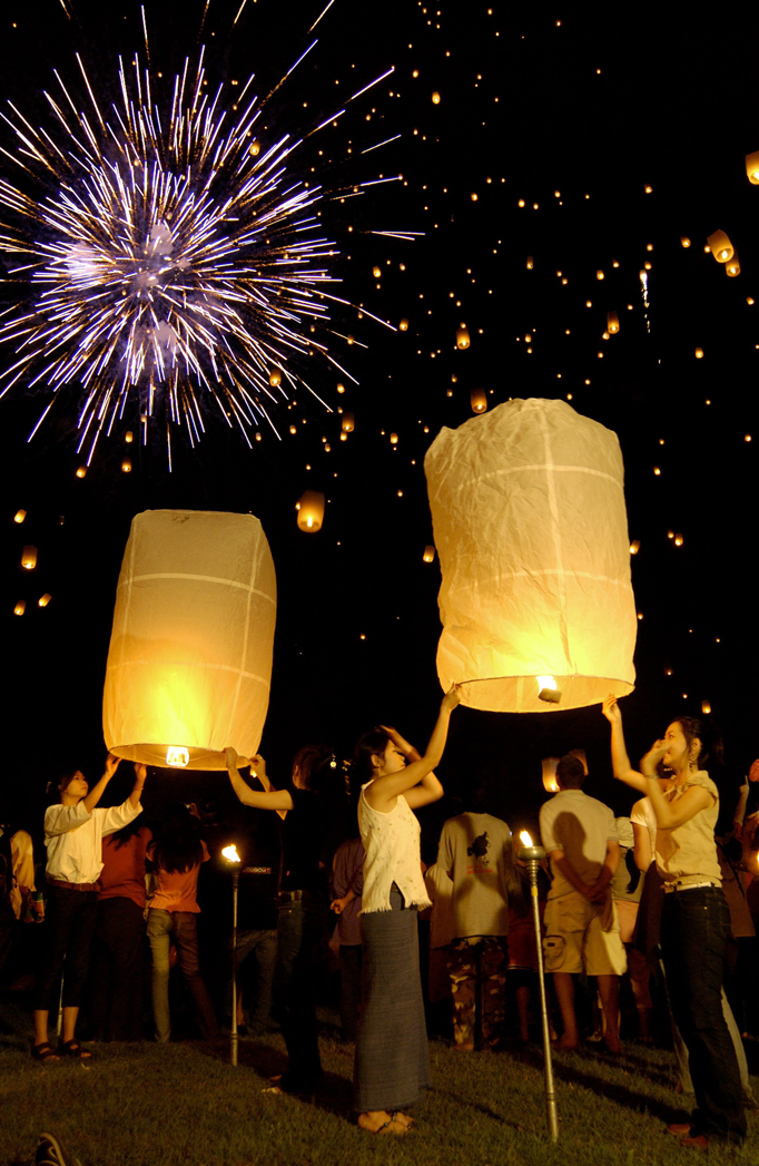 ChiangMai, Yi-peng